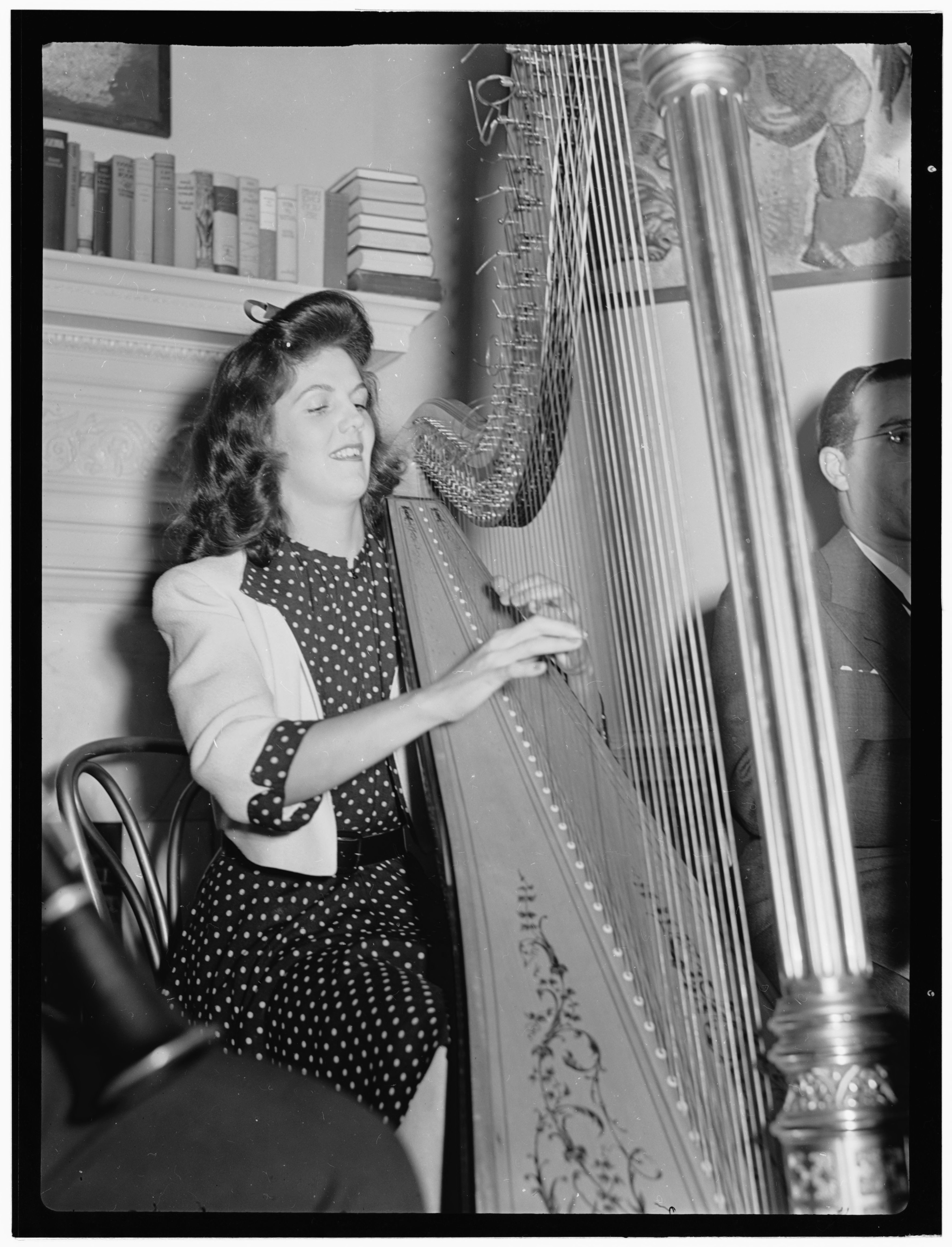 Gottlieb, William P., 1917-, photographer. [Portrait of Adele Girard, Turkish Embassy, Washington, D.C., 193-] 1 negative : b&w ; 3 1/4 x 4 1/4 in. Notes: Gottlieb Collection Assignment No. 033 Reference print available in Music Division, Library of Congress. Purchase William P. Gottlieb Forms part of: William P. Gottlieb Collection (Library of Congress). Subjects: Girard, Adele Women jazz musicians--1930-1940. Harpists--1930-1940. Turkish Embassy Format: Portrait photographs--1930-1940. Film negatives--1930-1940. Rights Info: Mr. Gottlieb has dedicated these works to the public domain, but rights of privacy and publicity may apply. Repository: (negative) Library of Congress, Prints & Photographs Division, Washington D.C. 20540 USA, (reference print) Library of Congress, Music Division, Washington D.C. 20540 USA, Part Of: William P. Gottlieb Collection (DLC) 99-401005 General information about the Gottlieb Collection is available at Persistent URL: Call Number: LC-GLB13- 0334 This work is from the William P. Gottlieb collection at the Library of Congress. Rights and restrictions.In accordance with the wishes of William Gottlieb, the photographs in this collection entered into the public domain on February 16, 2010.